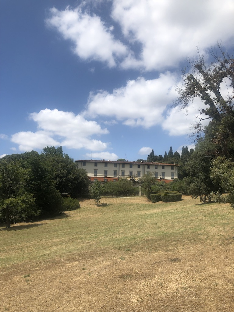 Villa di Quarto- View from the Park